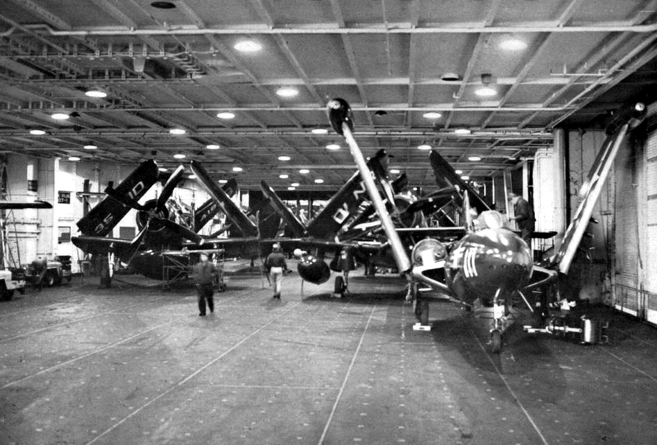 View of the hangar bay of the U.S. Navy aircraft carrier USS Valley Forge (CV-45), in 1951-1952. Visible are several aircraft of Air Task Group 1 (ATG-1): a Grumman F9F-2 Panther of Fighter Squadron 111 (VF-111) "Sundowners"; a Douglas AD-4NL Skyraider of Composite Squadron 33 (VC-33) Det. H "Night Hecklers"; a AD-4W of VC-11 Det. H "Early Eleven". All squadrons were assigned to ATG-1 aboard the Valley Forge for a deployment to Korea from 15 October 1951 to 3 July 1952.